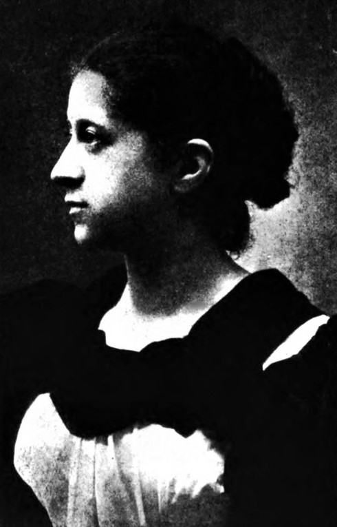 Portrait of the American composer Louisa Melvin Delos Mars (1860? - after 1926)